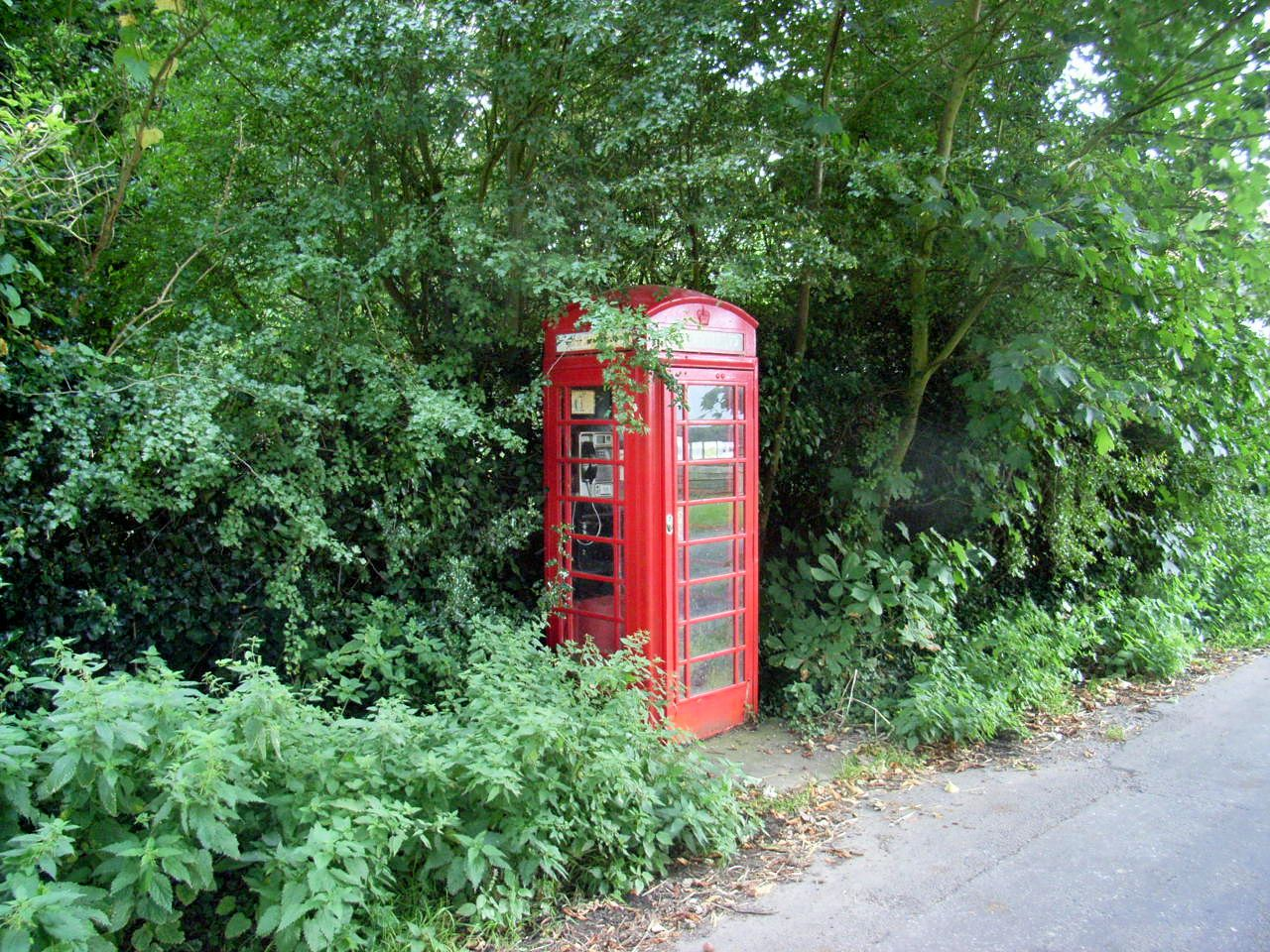 Red telephone box Traditional red telephone box situated in the centre of The Street, Wormshill. The telephone box was badly damaged when a tree fell on it during the Great Storm of 1987. Villagers fought to retain the traditional design when British Telecom proposed replacing it with a more modern version.